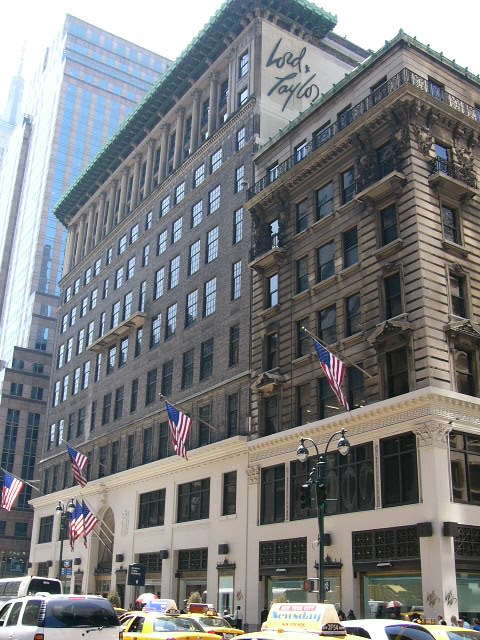 Caza Matris de Lord & Taylor. See also File:Lord and Taylor jeh.JPG